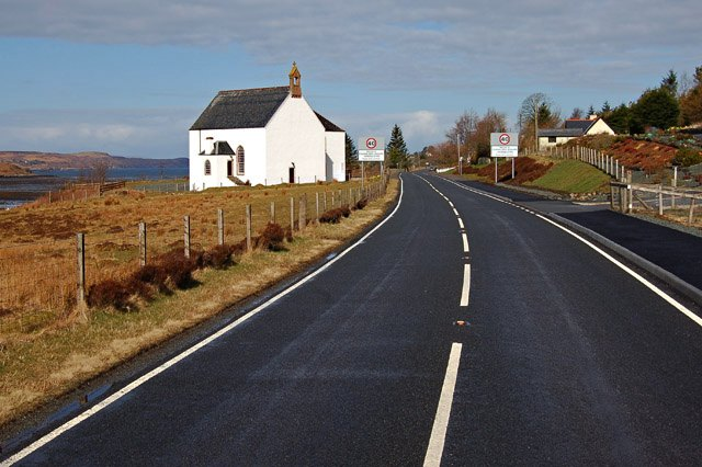 Snizort Church of Scotland